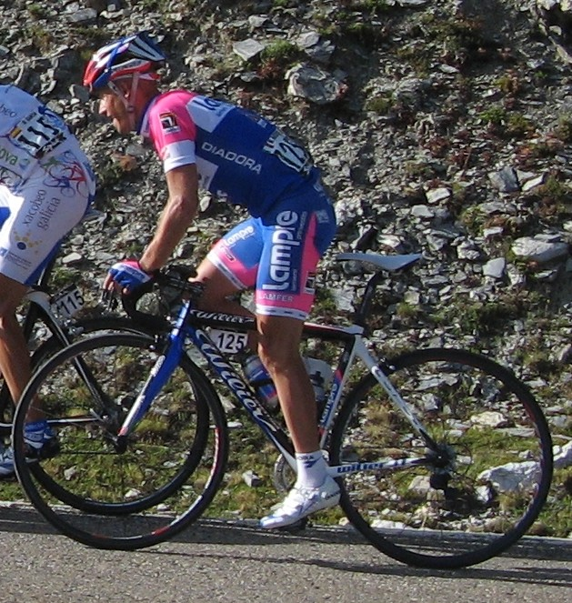 Marco Marzano, 2008 Vuelta a España, 8th stage, Port de la Bonaigua, Spain.